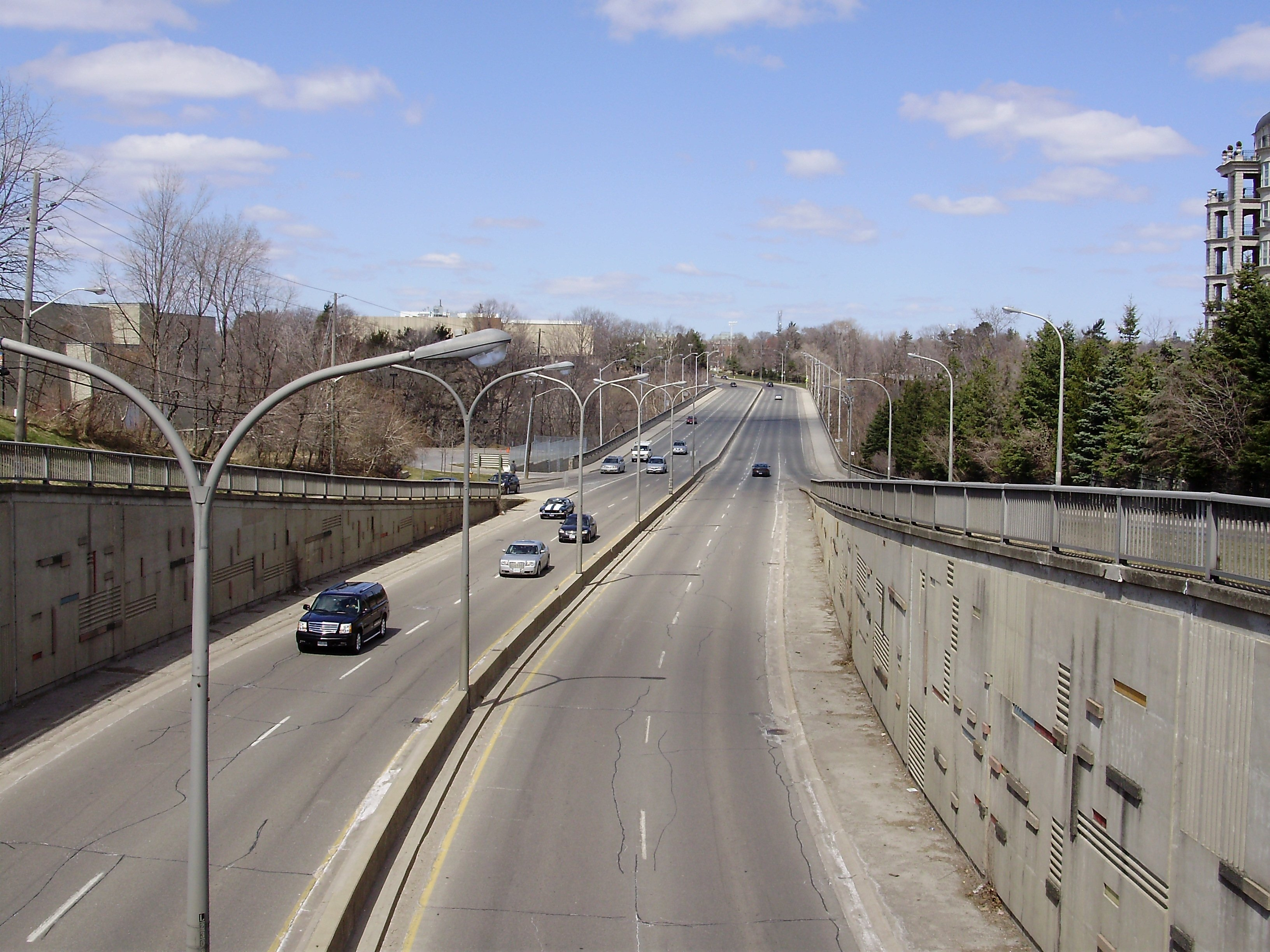 The six lanes of Bayview Avenue are carried above the Don Valley by the Bayview Bridge, photographed looking north from Lawrence Avenue East, in Toronto, Ontario, Canada.